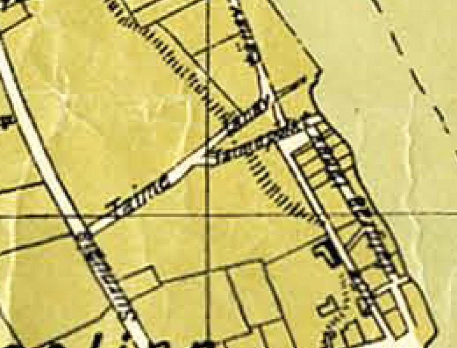 Taime street on old Narva map 1929